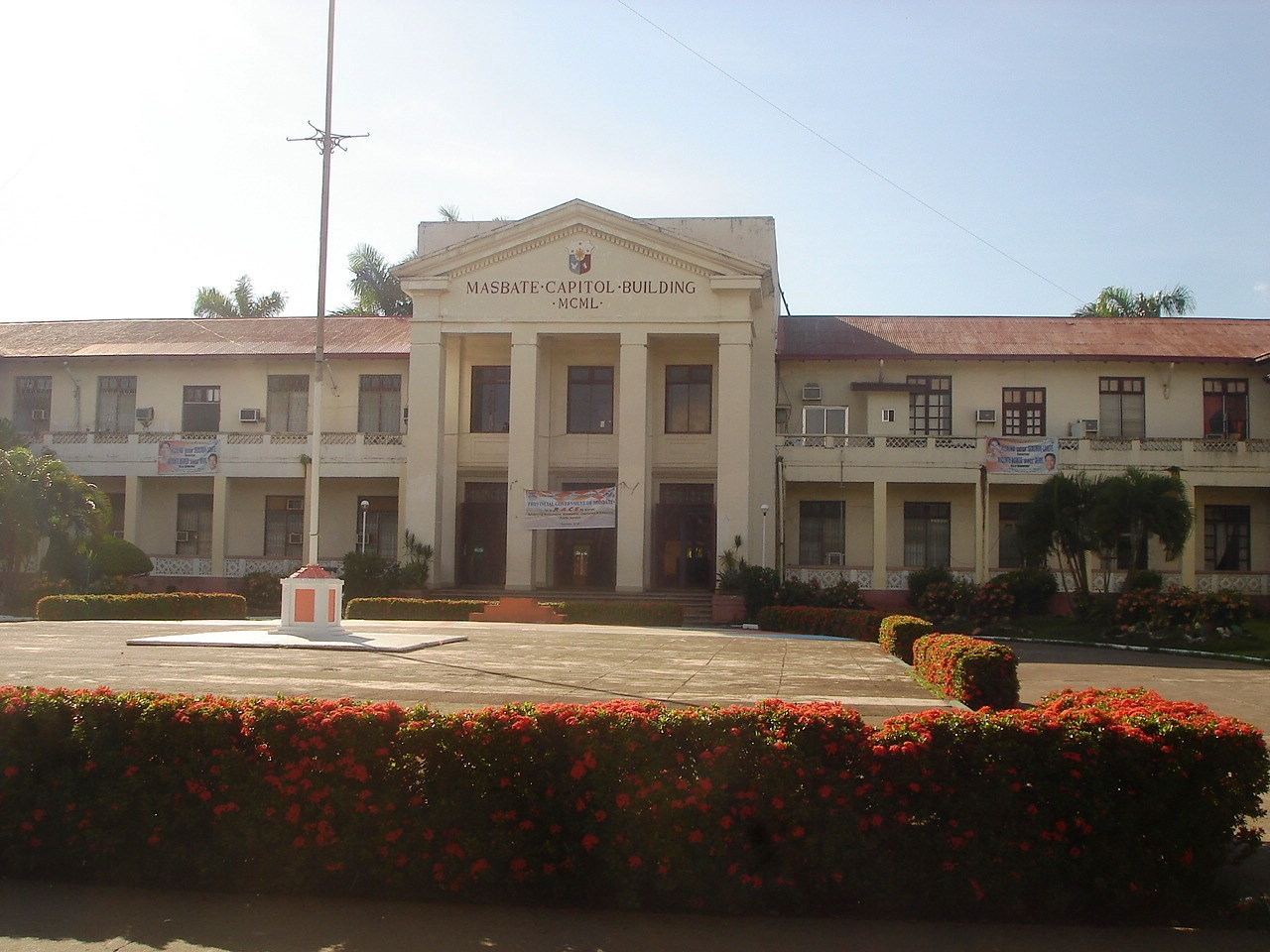 Masbate Provincial Capitol Building